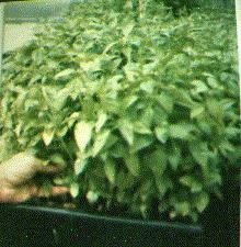 Young basil plants start from seed and grown in an aeroponic system